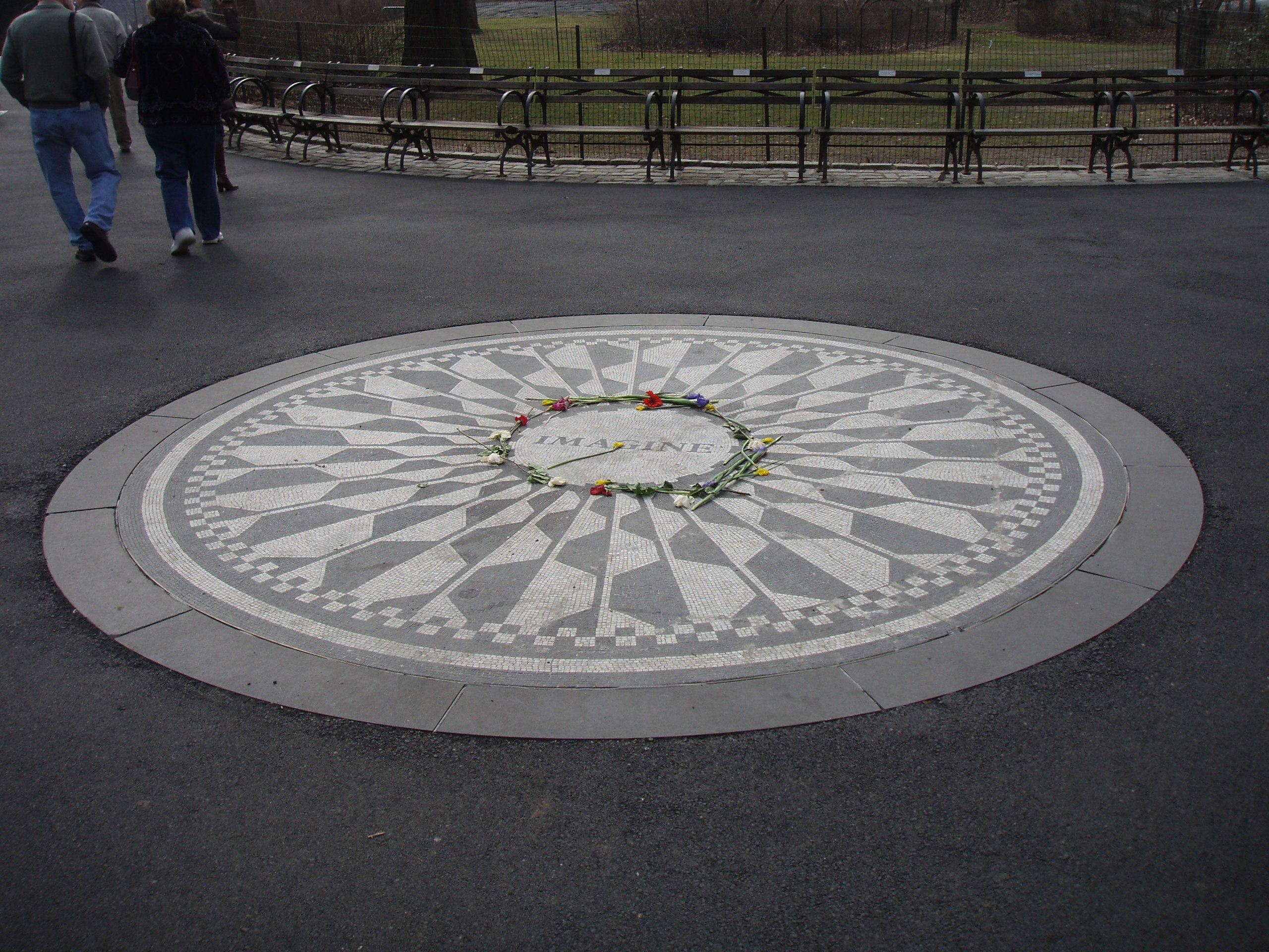 John Lennon memorial in Central Park